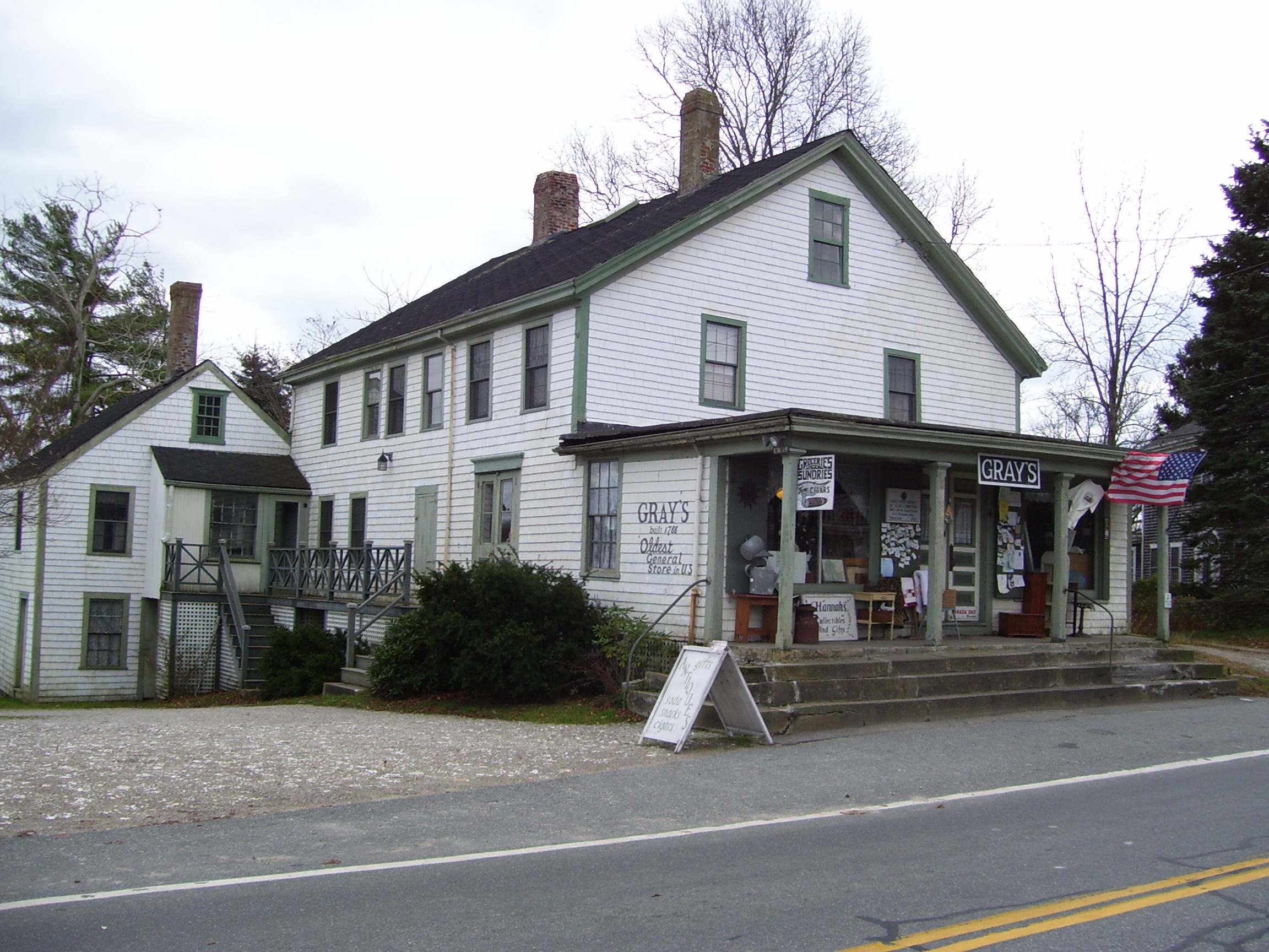 This is my 2008 photo of Gray's General Store in Little Compton, Rhode Island.